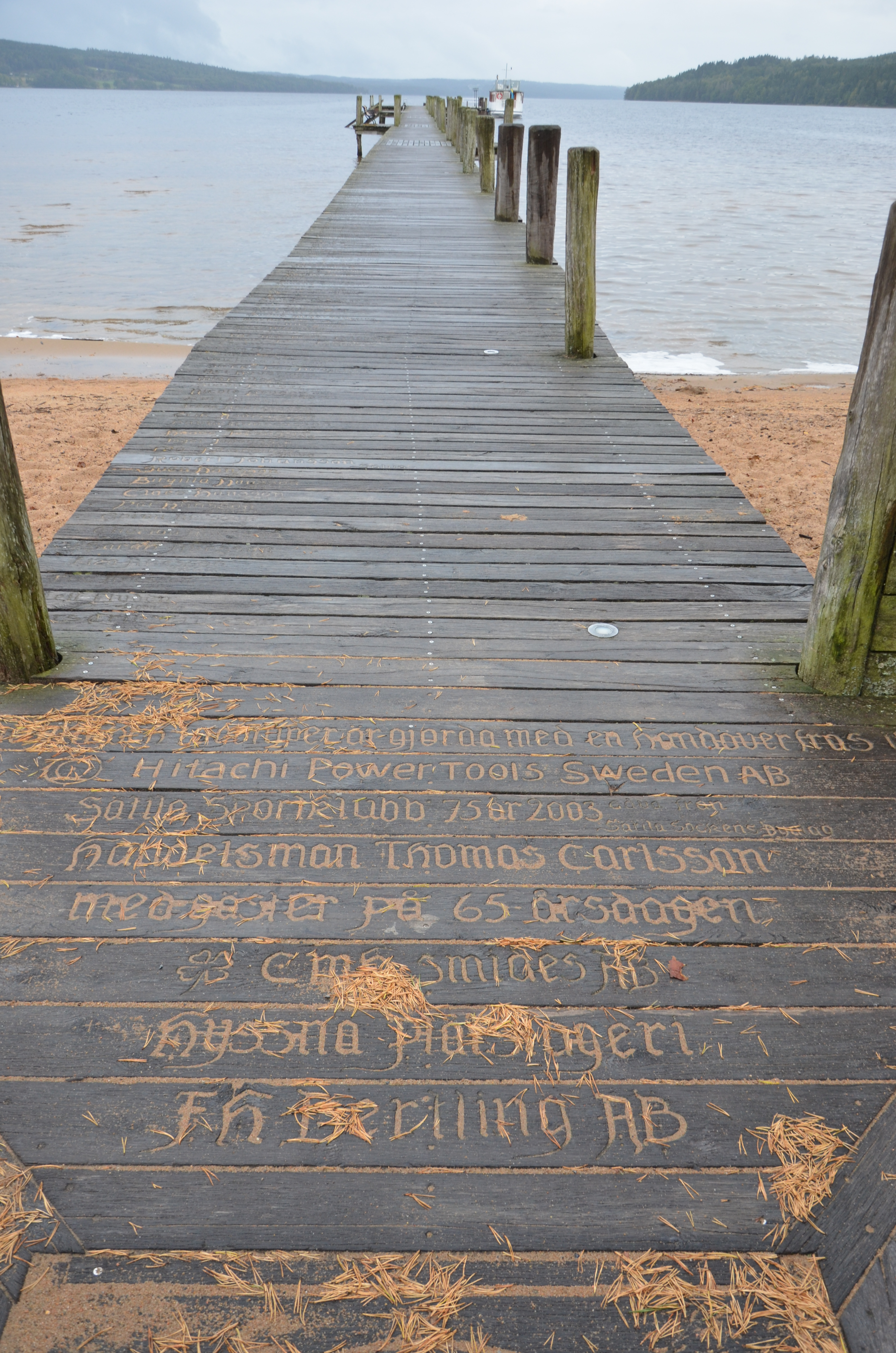 Bryggan i Sätila sand